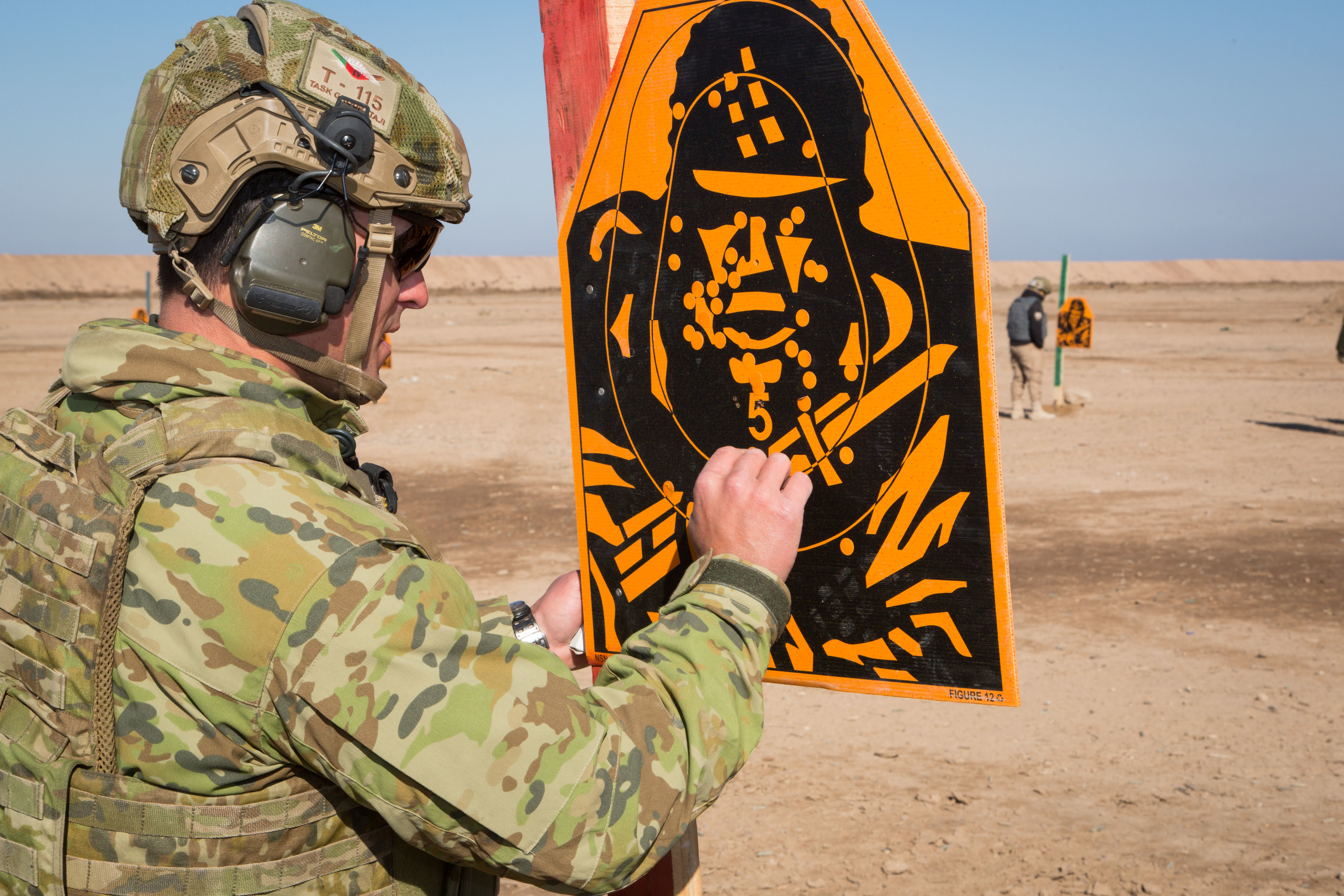 An Australian army trainer marks an Iraqi security forces soldier’s firing group during a familiarization range at Camp Taji, Iraq, Feb. 18, 2017. The range was part of the junior leader’s course led by Coalition forces designed to enhance basic combat skills in support of Combined Joint Task Force – Operation Inherent Resolve, the global Coalition to defeat ISIS in Iraq and Syria. (U.S. Army photo by Spc. Christopher Brecht)